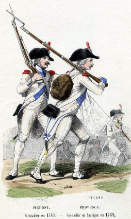 Régiment de Piémont and Provence Grenadiers in 1789.